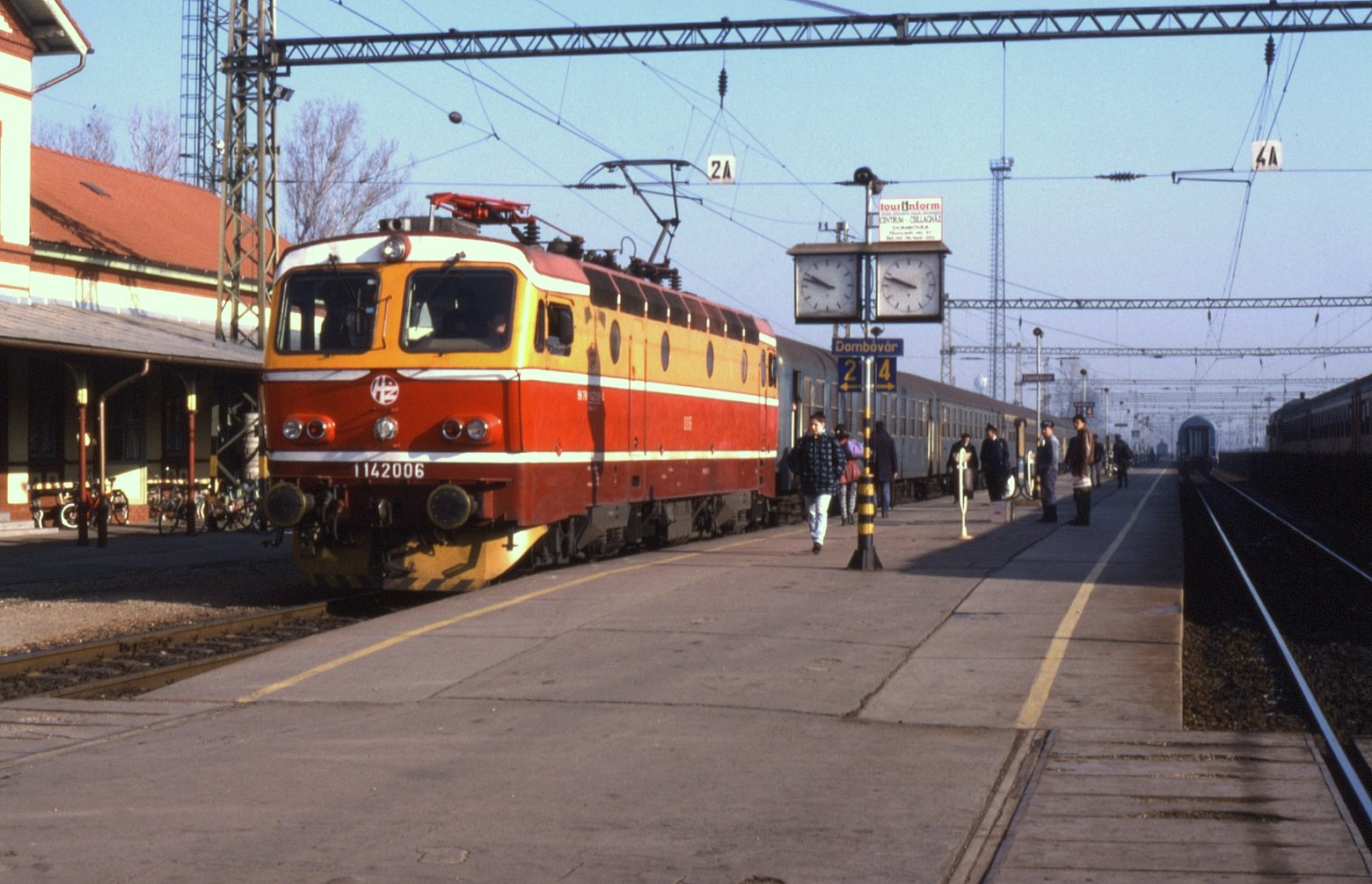 HŽ 1142 at Dombóvár train station.